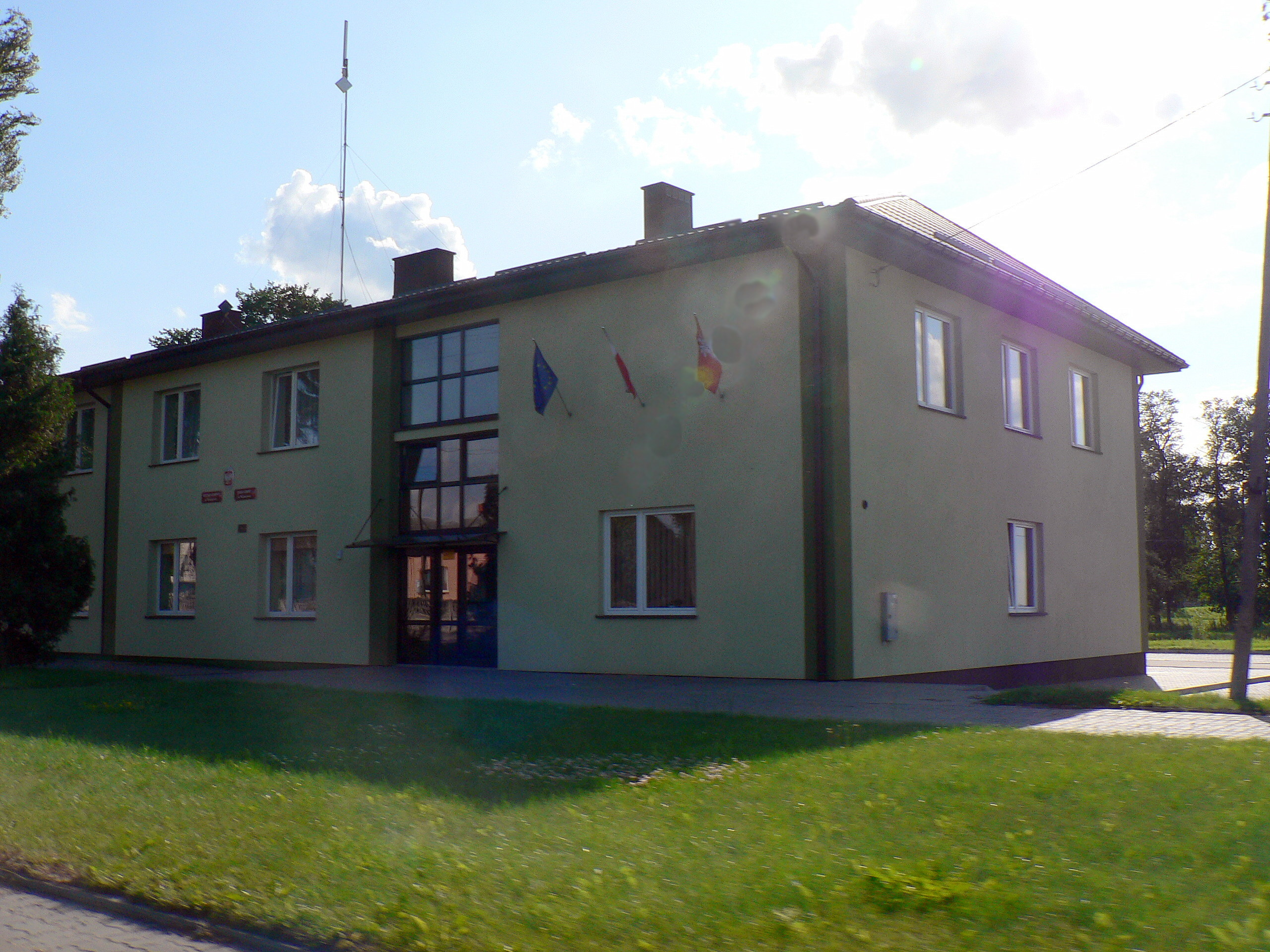 Urząd Gminy in Wiśniewo